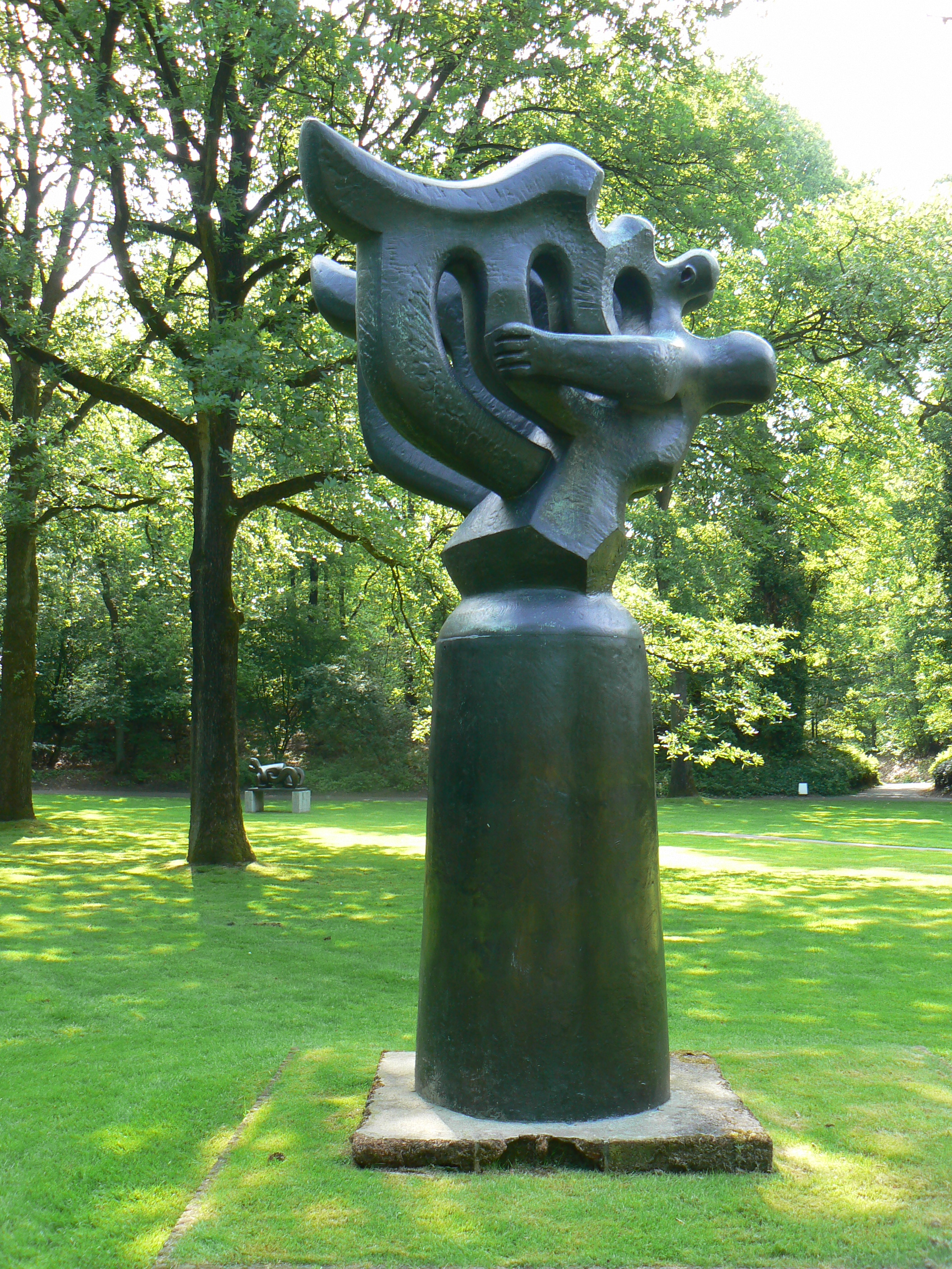 sculpture Le chant des voyelles (1931/2) by Jacques Lipchitz in KMM Sculpturepark/The Netherlands